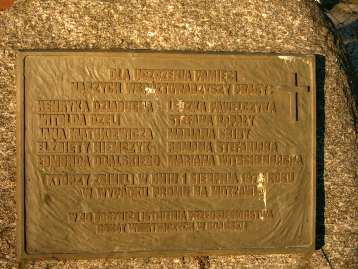 No longer existing commemorative plaque commemorating the dead employees of Hydropol Drilling Works in Gdańsk. It was placed on a large stone in front of the gate to the company.